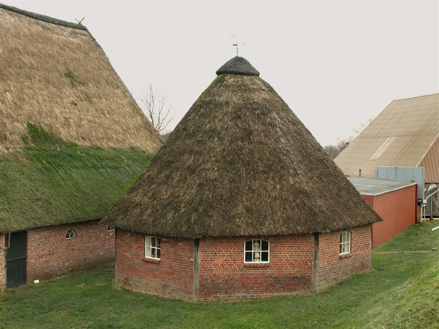 Seestermühe, Schlesvic-Holstein,Germany :"Göpel", photo 2007